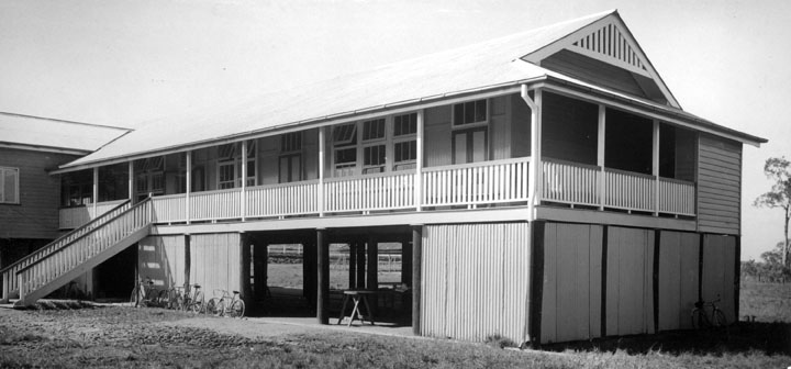 Additional accommodation, Nudgee State School.